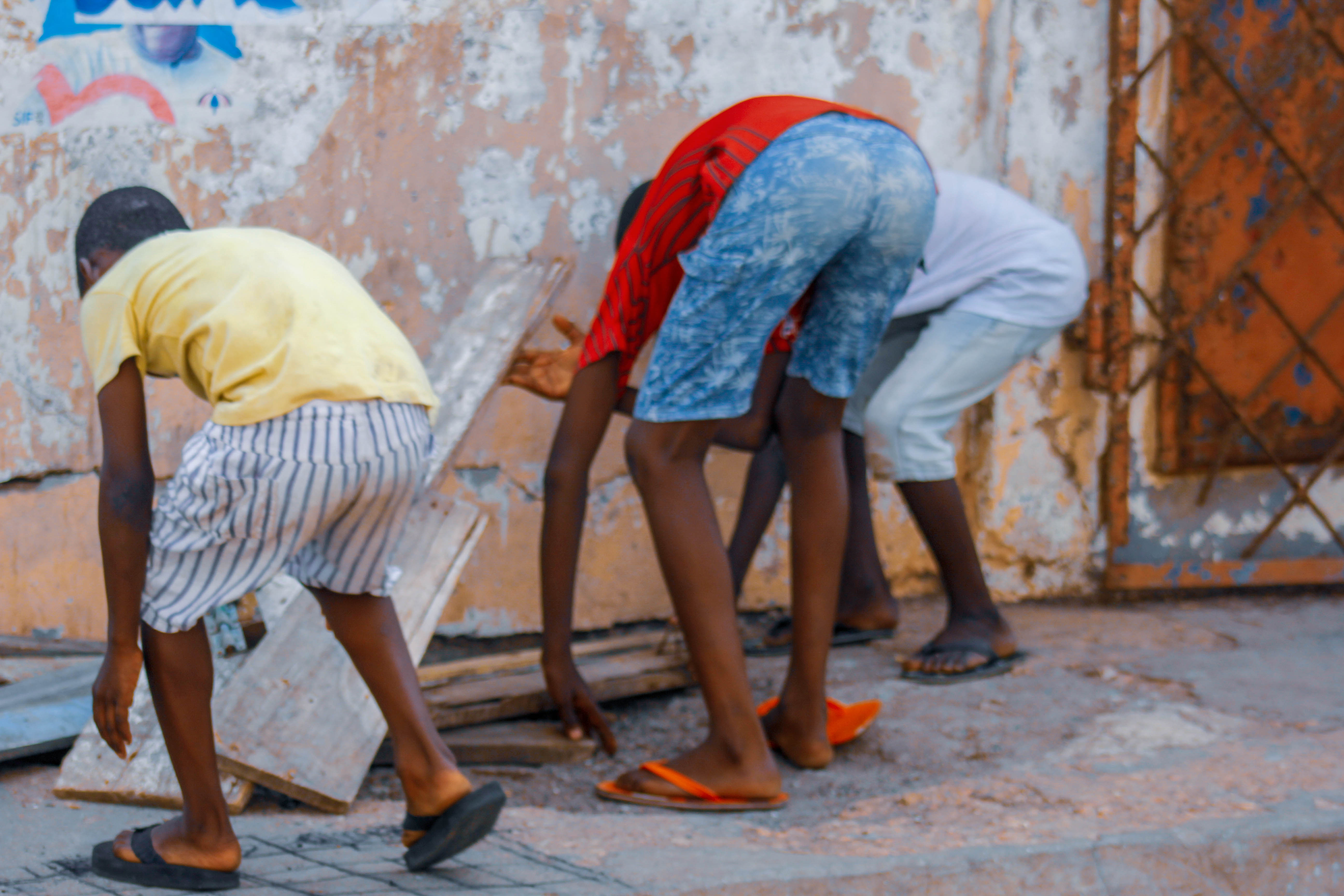 A Ghanaian game similar to hide-and-seek The Pilolo game is played by two or more children. The higher the number, the increase in excitement and zeal to win. An object like a stick is mostly used and the number of sticks to use is dependent on the number of children. A non-participant hides the sticks while the participants have either closed their eyes or not in the same location. The non-participant then shout out "pi-lo-lo", the participants then run from their hideout to search for the item. A finish point is indicated where they must send the stick to be a winner. One needs to be smart, observant and skilful to detect where the item has been hidden. The first person that sees it secretly runs to the finish point before alerting the others after a hard time trying. It is then recorded as they reach the finish point. There is an excitement after being the winner. It can be played multiple times